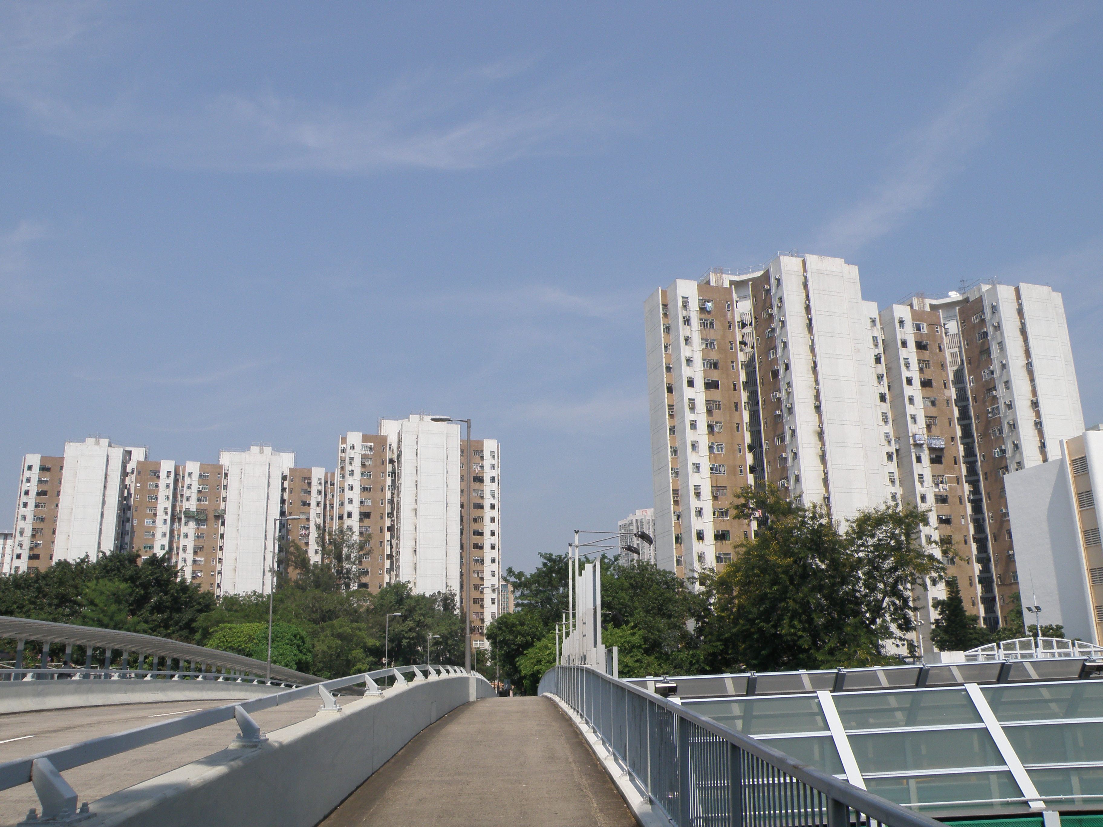 Yuk Po Court in Sheung Shui, Hong Kong.